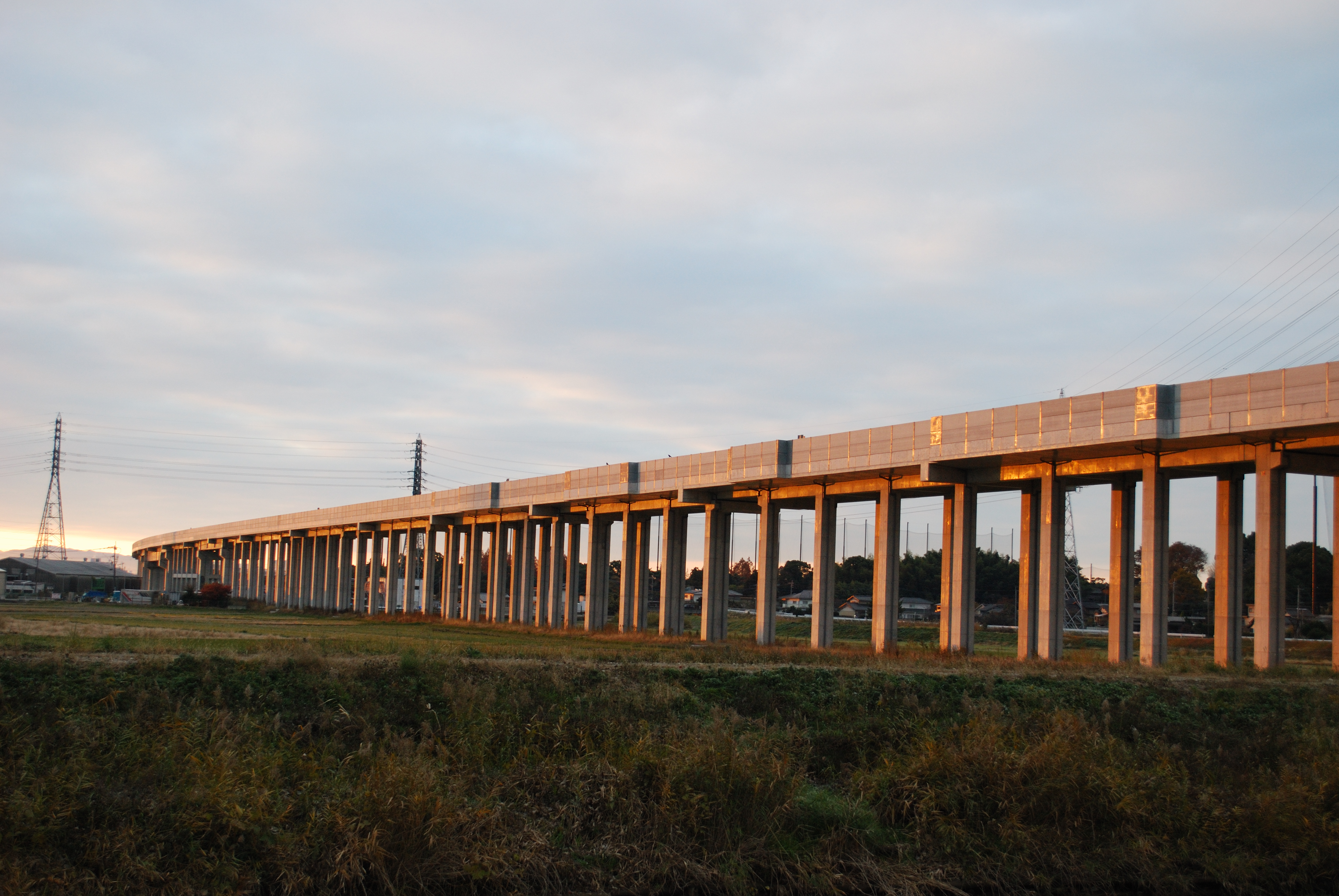 Kyushu Shinkansen Railway - Tosu, Saga, Kyushu, Japan